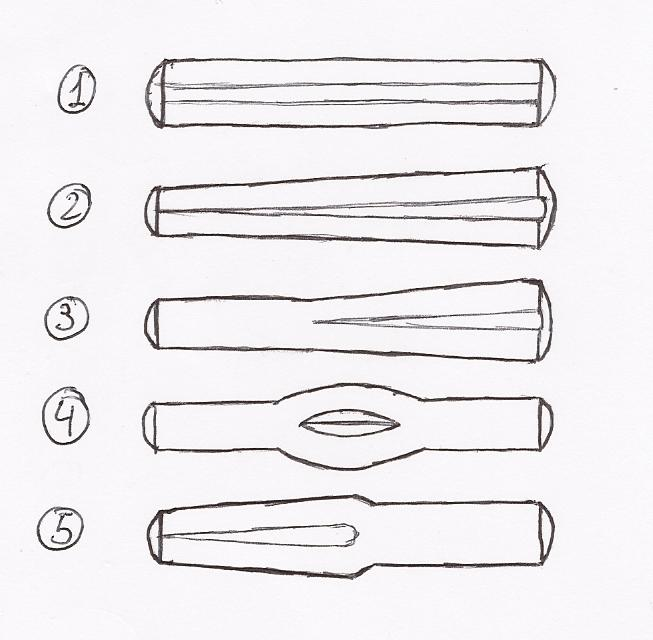 tipos pasadores